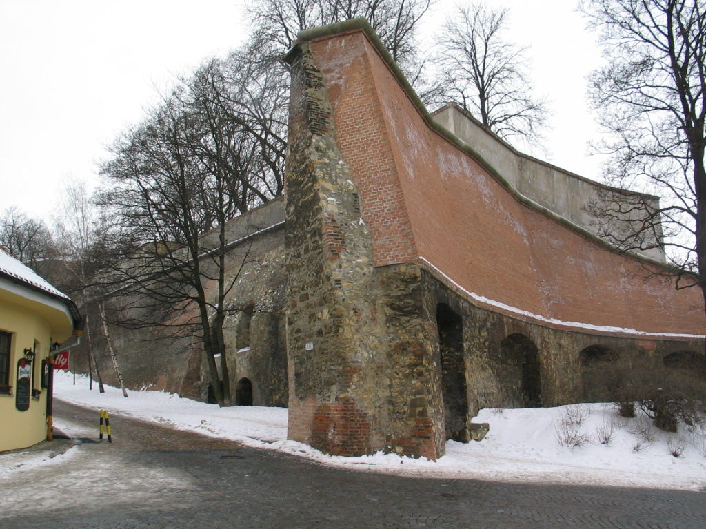 The baroque Marian Wall, marke the end of Hradčany, Strahov Monastery.